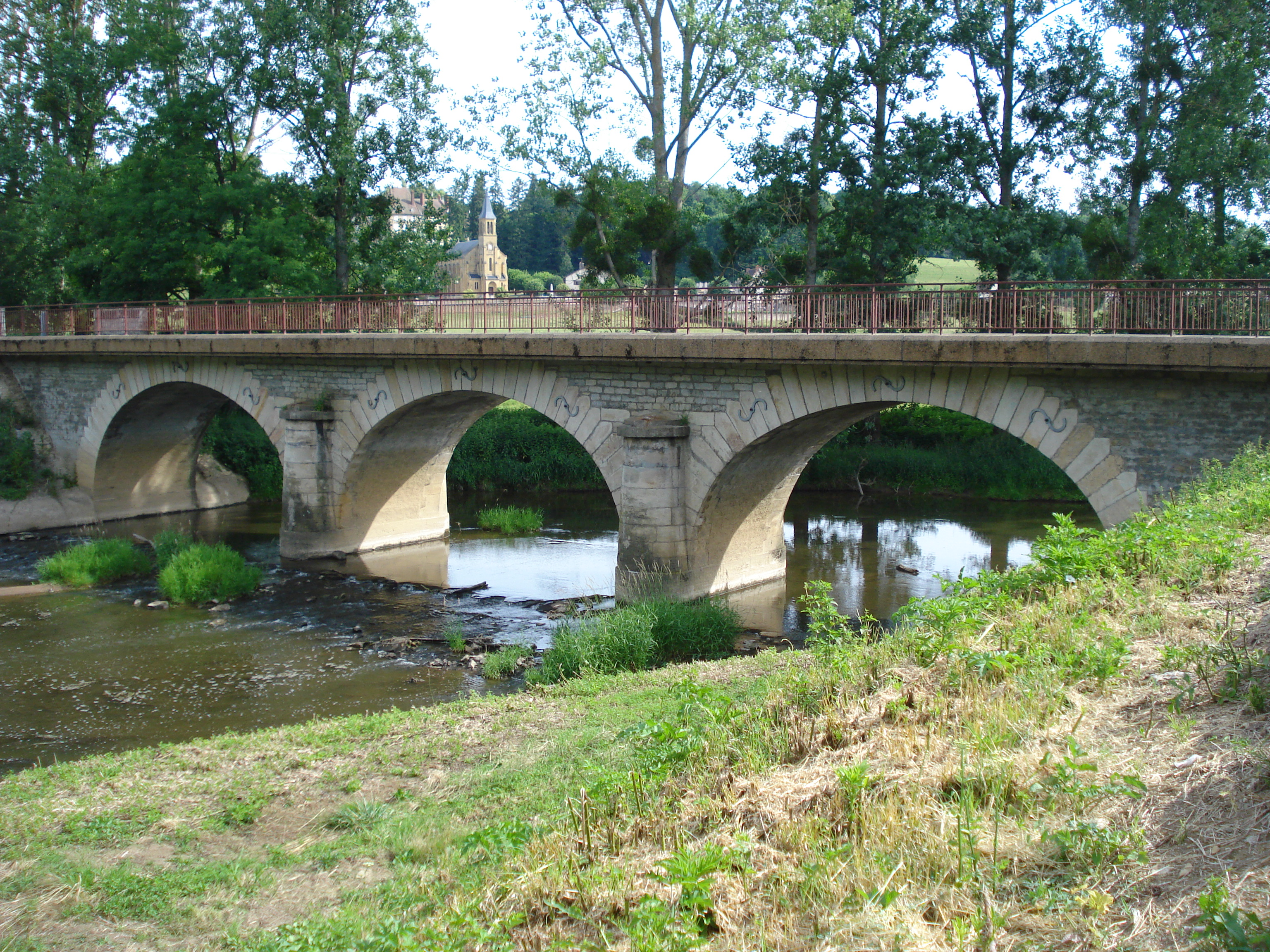 Road bridge on Arconce and church of Lugny-lès-Charolles (Saône-et-Loire, Fr)